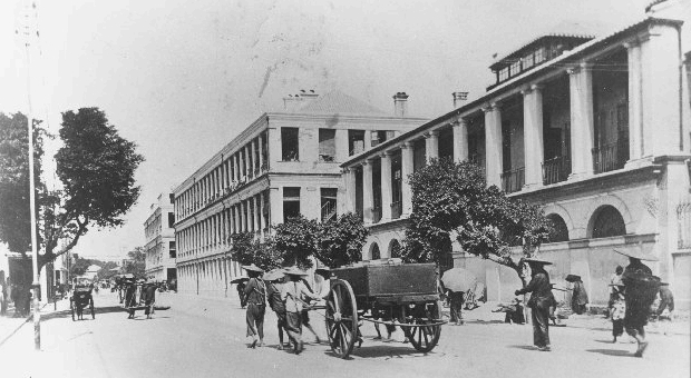 View of the premises of the two-storey Military Commissariat from Queen's Road. The 2 identical 3-storey buildings are the main Royal Naval Dockyard buildings. The entrance to the Dockyard is located between them. Taken c.1894, author unknown